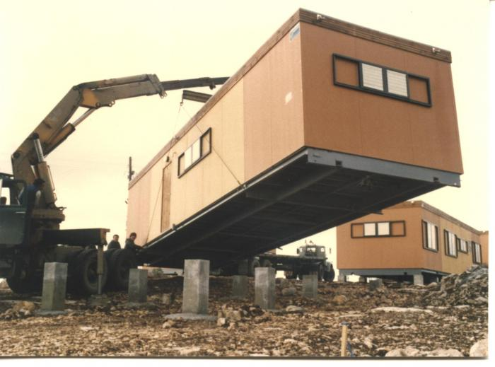 Posting seven orange caravans on short concrete pillars, all on one day Notes: (1126_1)